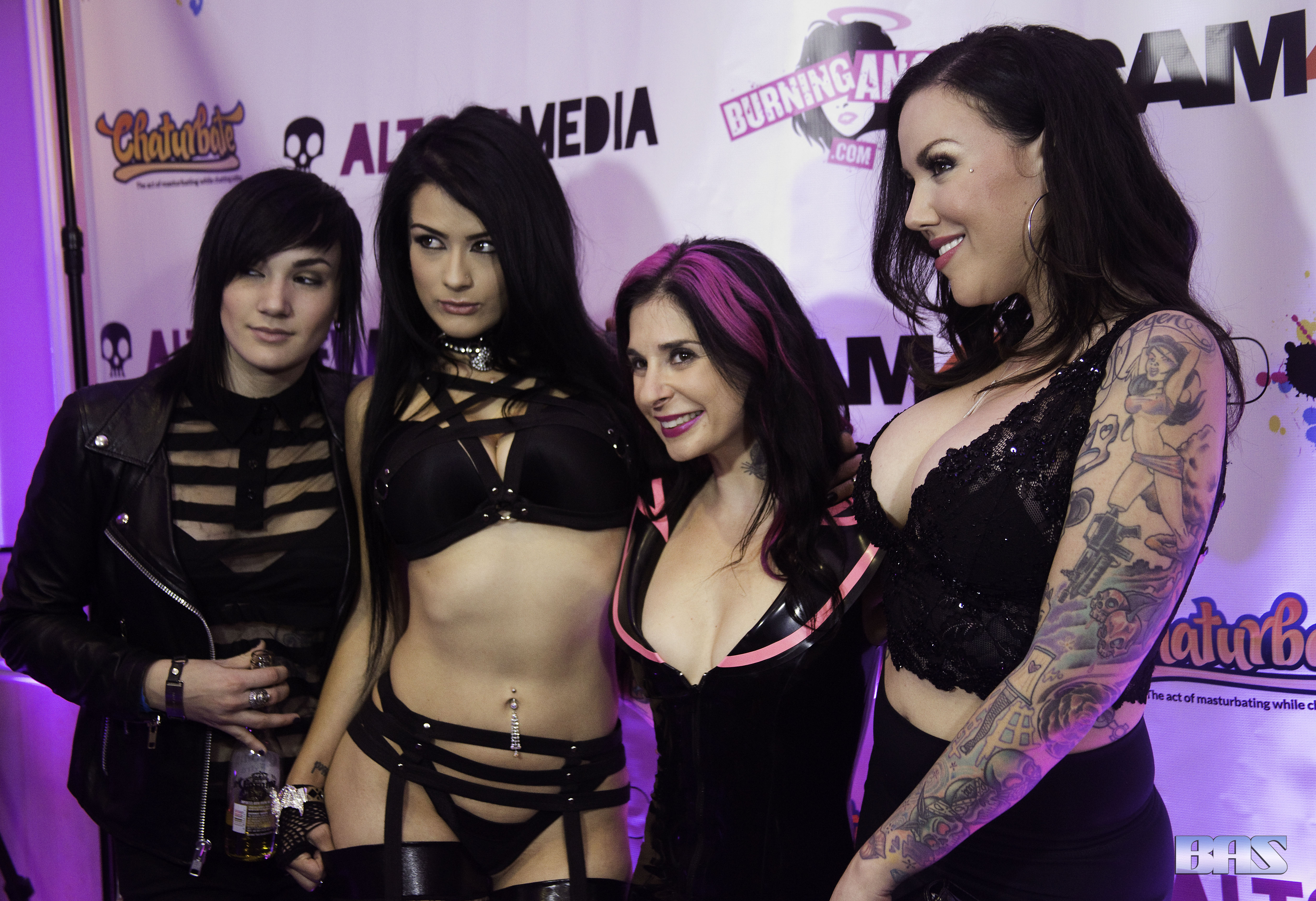 Nikki Hearts, Katrina Jade, Joanna Angel, and Emily Parker at the Inked Awards on November 14, 2015